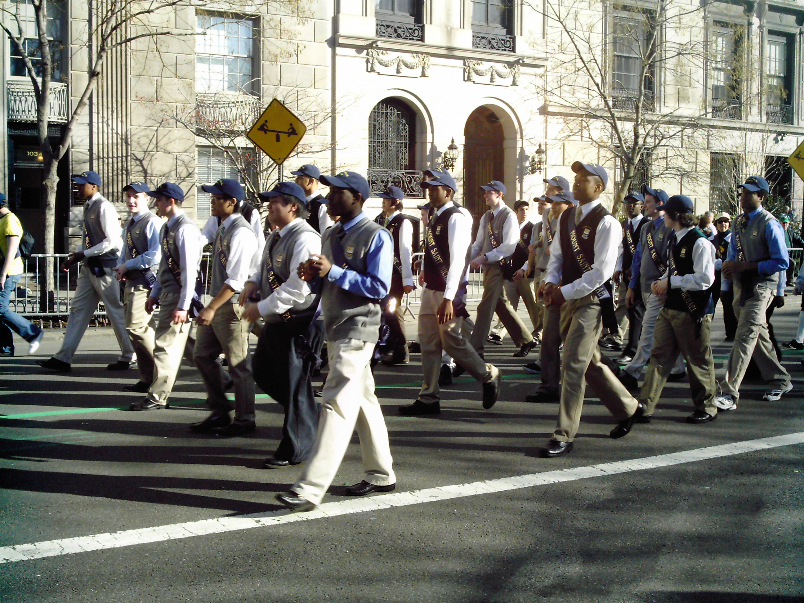 Students marching for Mount Saint Michael Academy in the Saint Patrick's Day Parade of 2010.